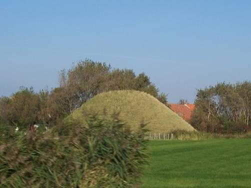 Vliedberg (castle mound) Boudewijnskinderen, near Boudewijnskerke in Zoutelande.